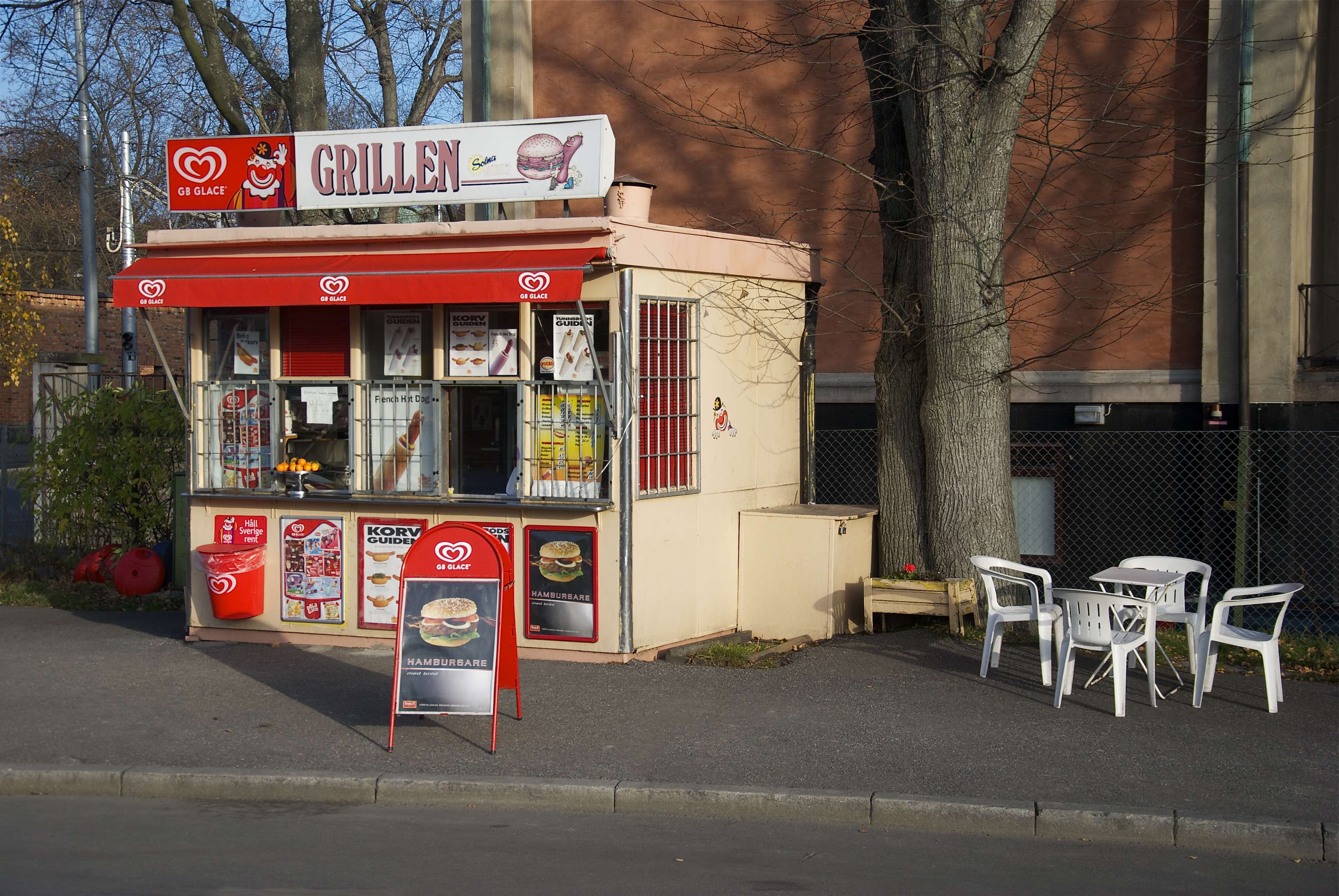 Hot dog stands in Djurgården, Stockholm.